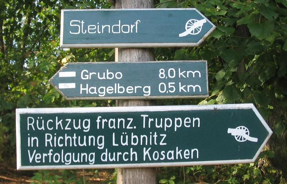 Sign fallback french troops in the „Battle nearby Hagelberg“. The village Hagelberg is a part of the town Belzig in the district Potsdam Mittelmark, state Brandenburg, Germany. The village appertains to the nature park Naturpark Hoher Fläming. There are two monuments commemorating to the prussian victory in the „Battle nearby Hagelberg“ in 1813 against Napoleon.